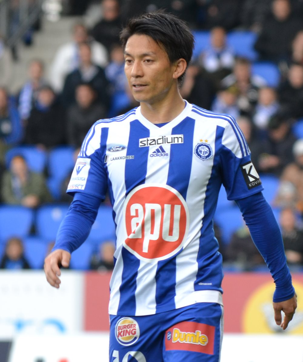 Football player Atomu Tanaka